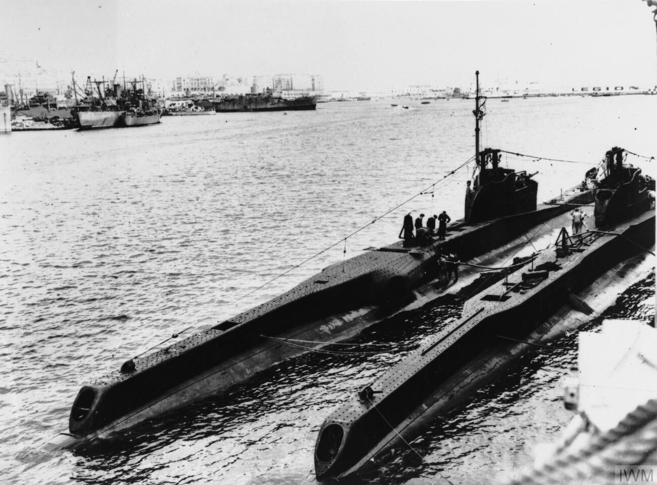 HMSM Turbulent On the outboard side, moored up.